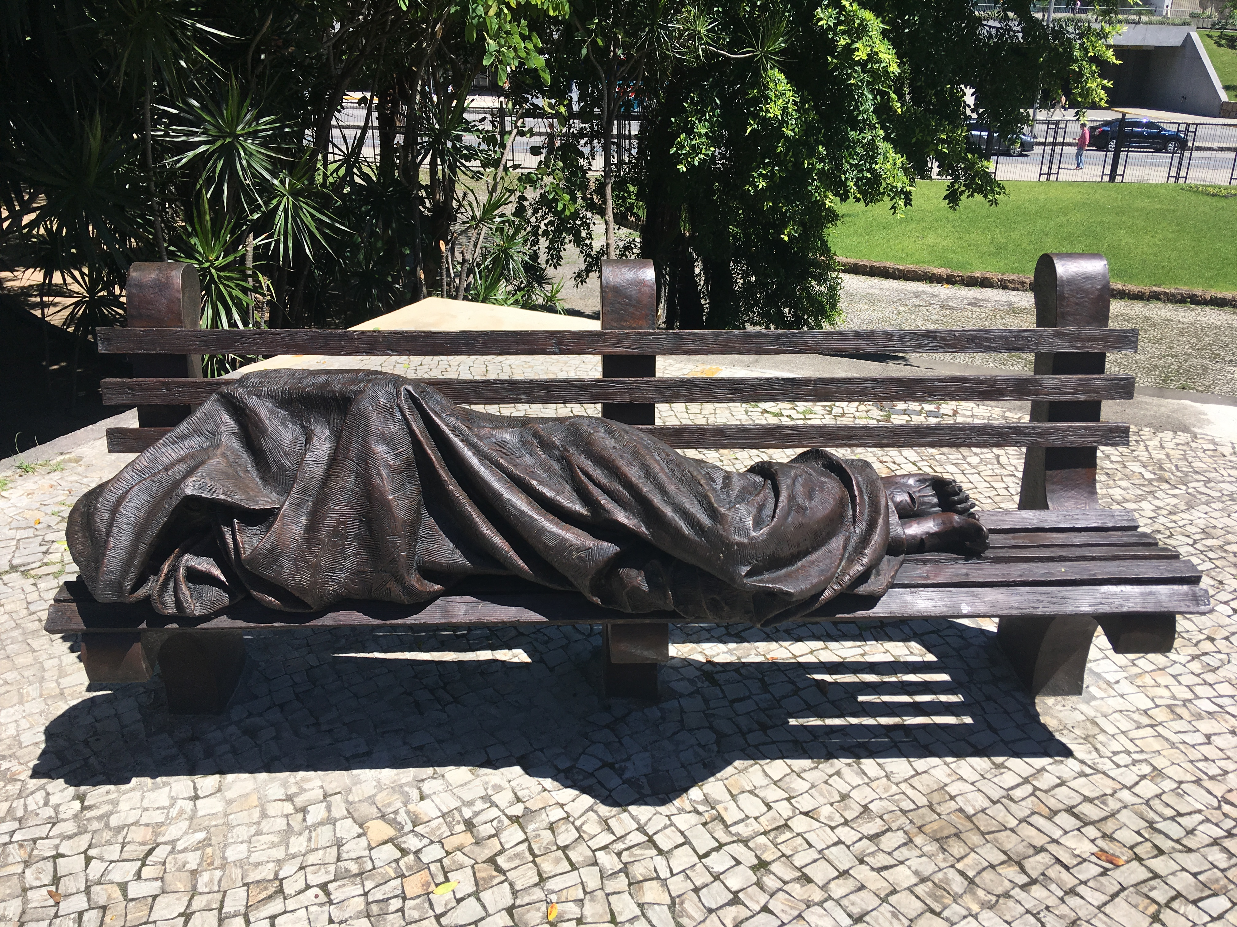 Homeless Jesus by Timothy Schmalz in front of the Metropolitan Cathedral of Saint Sebastian in Rio de Janeiro